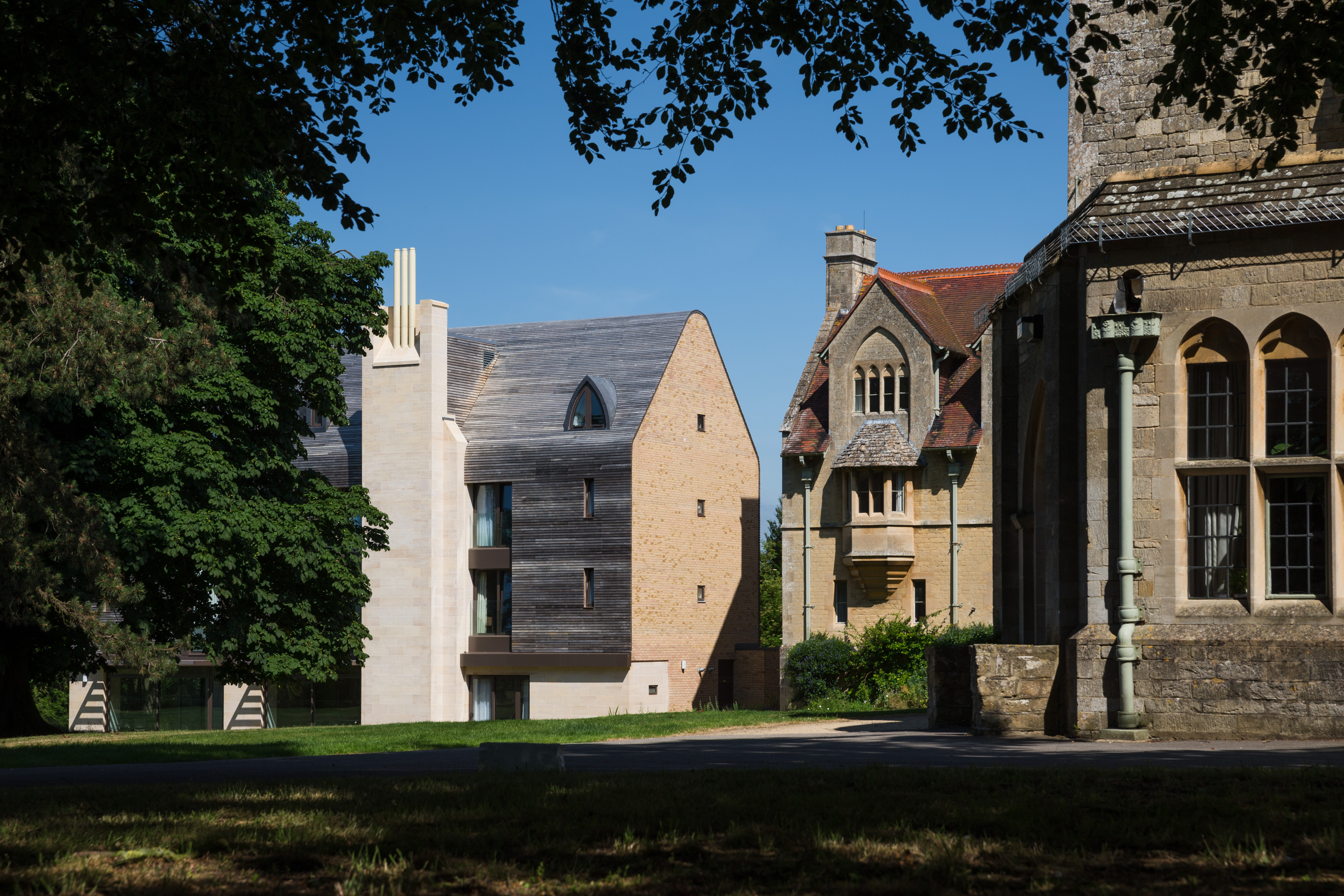 Harriet Monsell House and the Rashdall Building.